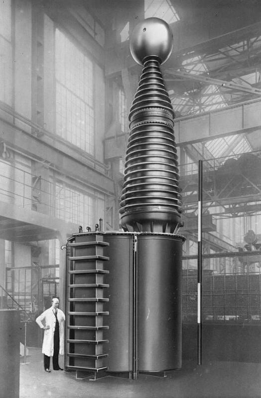 A great achievement of German technology! AEG's one million volt utility transformer, 9 meters high, was finished in Berlin